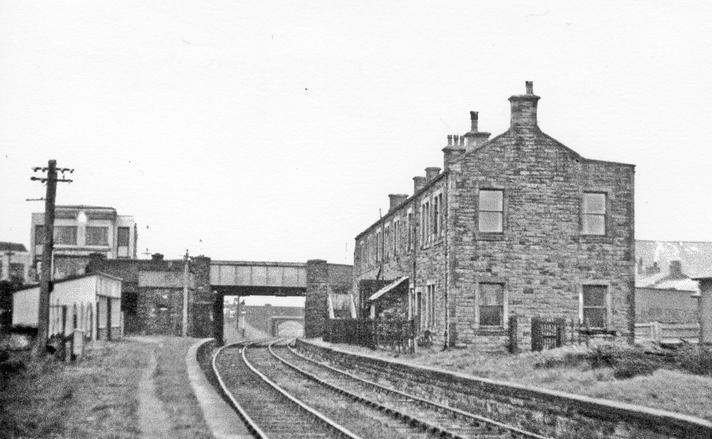 Northward at former Workington Central station, May 1951 This had been the main station and Head Offices of the former Cleator & Workington Junction Railway, closed 13/4/31 for passengers Moor Row - Siddick, but still open for goods to Calva Junction until 26/9/65.